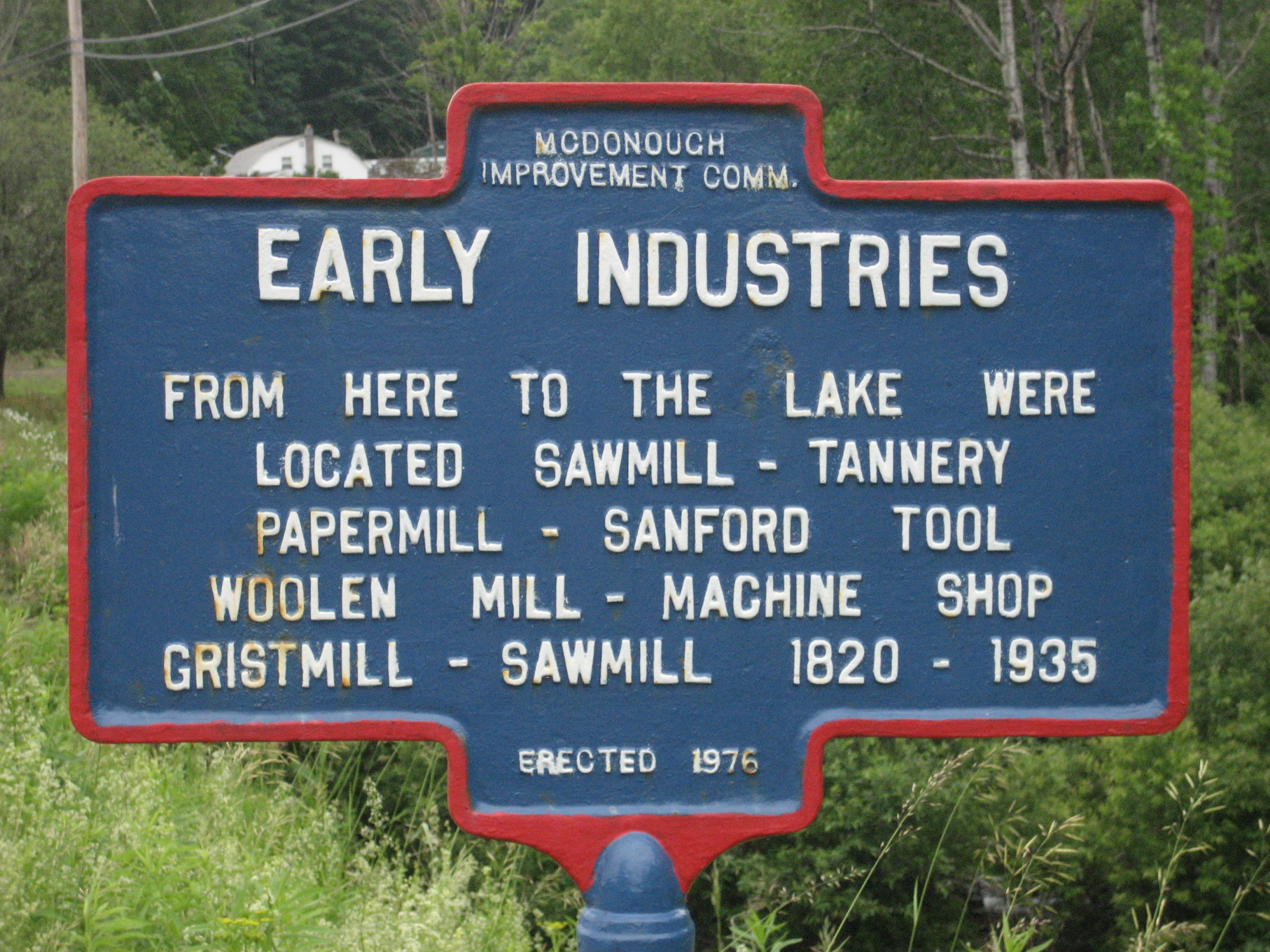 Historic marker of early industries of McDonough, NY. Sawmill, tannery, paper mill, Sanford Tool, woolen mill, machine shop, gristmill, sawmill from 1820-1935.